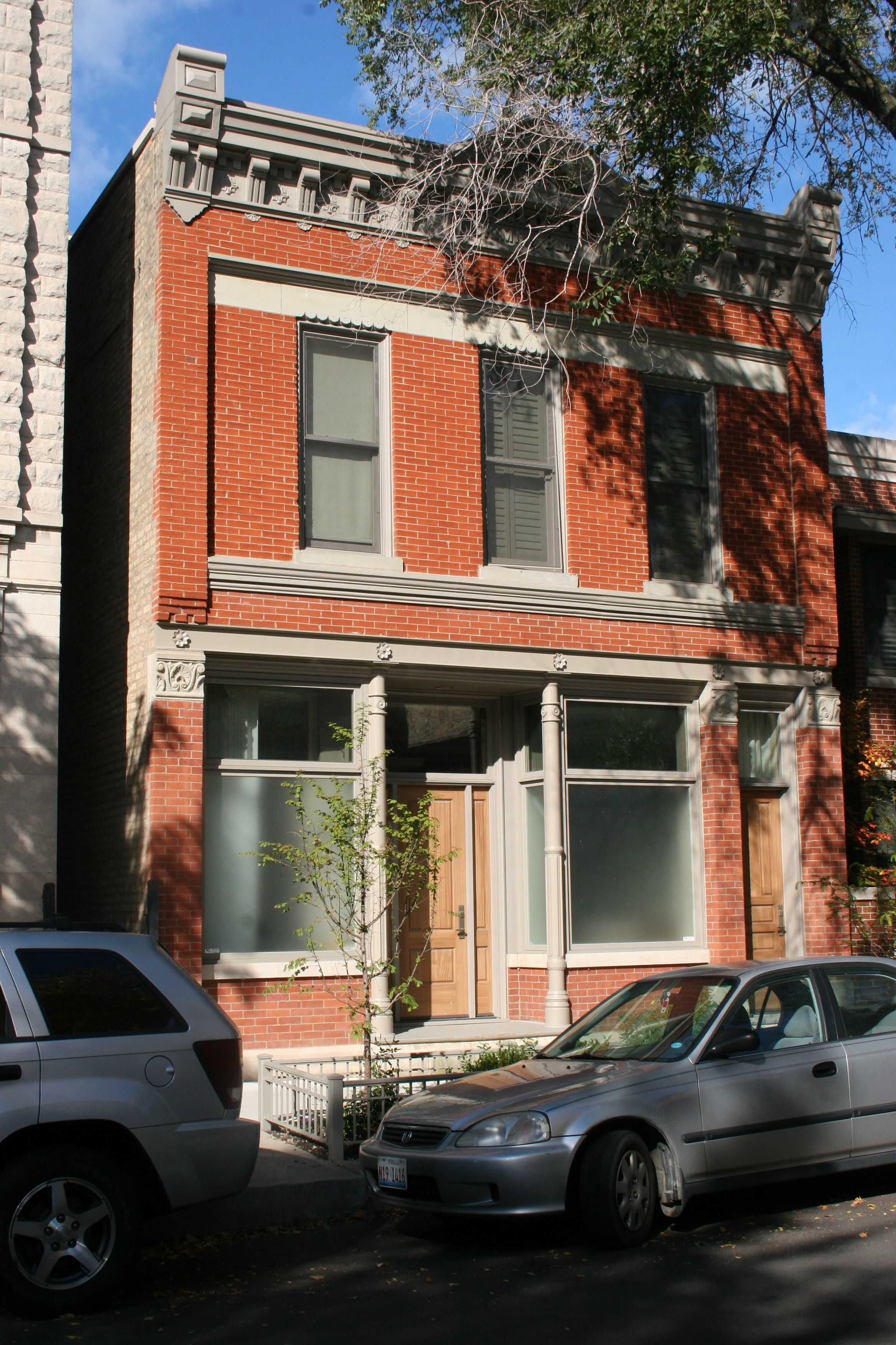 Richard Nickel Studio and residence — in Bucktown, Logan Square, Chicago, Illinois. Nickel (1928-1972) was a renowned architectural photographer and historic preservationist in Chicago.